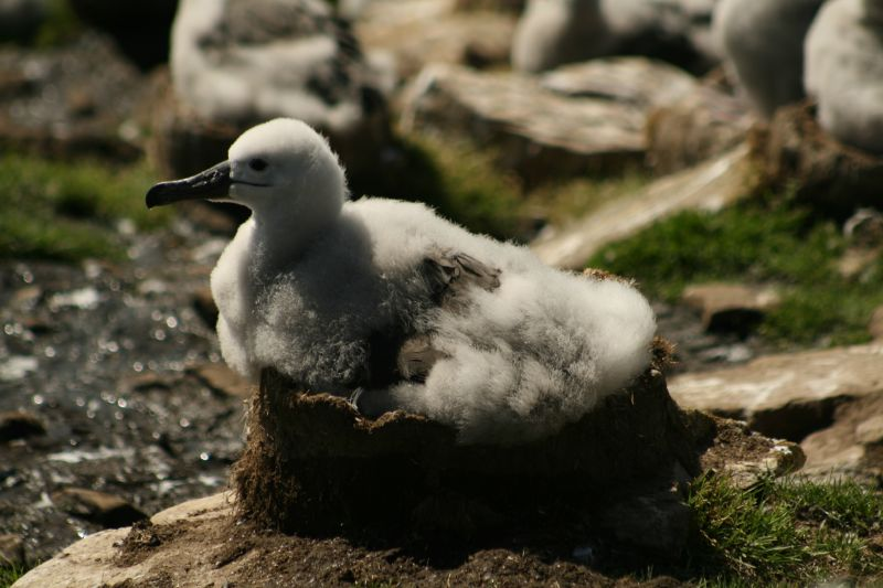 Thalassarche melanophris chick on Saunders island, Falklands